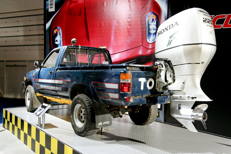 Image of Jeremy Clarkson's "Toybota" used in Top Gear